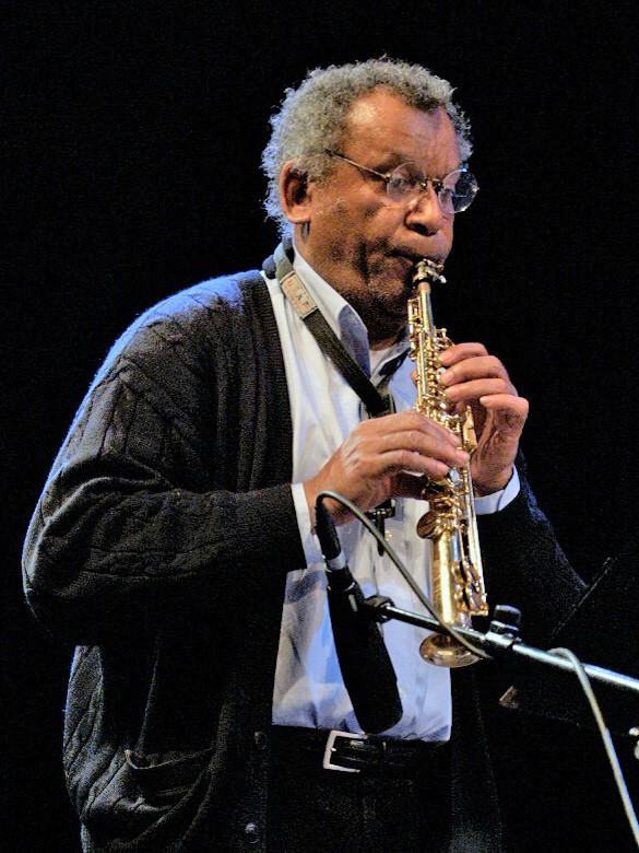 Anthony Braxton at moers festival 2007 self made/own work, may 26, 2007 photo: nomo/michael hoefner